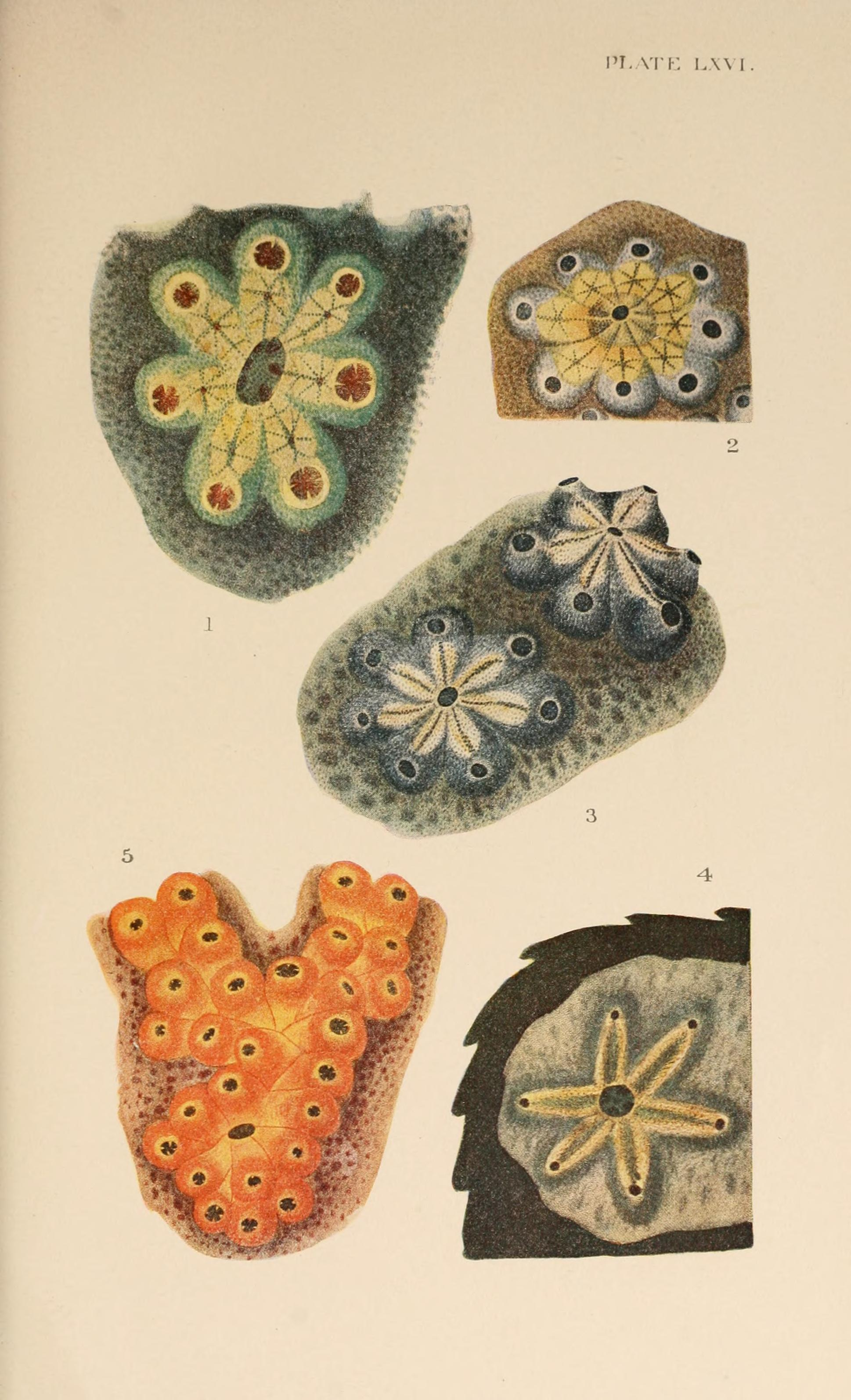 Alder, Joshua, Embleton, Dennis, Hancock, Albany, Hopkinson, John,Norman, Alfred Merle ,1905-12 The British Tunicata; an unfinished monograph, by the late Joshua Alder and the late Albany Hancock. Edited by John Hopkinson, with a history of the work by the Rev. A. M. Norman.London,Printed for the Ray society. Volume 3 Plate 66 PLATE LXVI. FIG. 1. Botryllus smaragdus M. Edw. (p. 65) (M. Edwards, pl. vi, f. 6a.) 2. Botryllus gemmeus Sav. (p. 68) (M. Edwards, pl. vi, f . 5a.) 3. Botryllus violaceus M. Edw. (p. 69) (M. Edwards, pl. vi, f. 4a.) 4. Botryllus bivittatus M. Edw. (p. 75) (M. Edwards, pl. vi, f. la.) 5. Botrylloides rubrum M. Edw. (p. 79) (M. Edwards, pl. vi, f. 3a.) All the figures are of systems much enlarged.